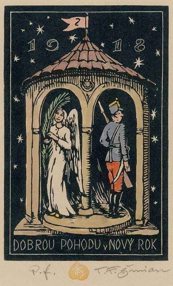 A drawing of a weather house, drawn by the Czech artist Tavik Frantisek Simon, apparently as a design for a New Years' Day card